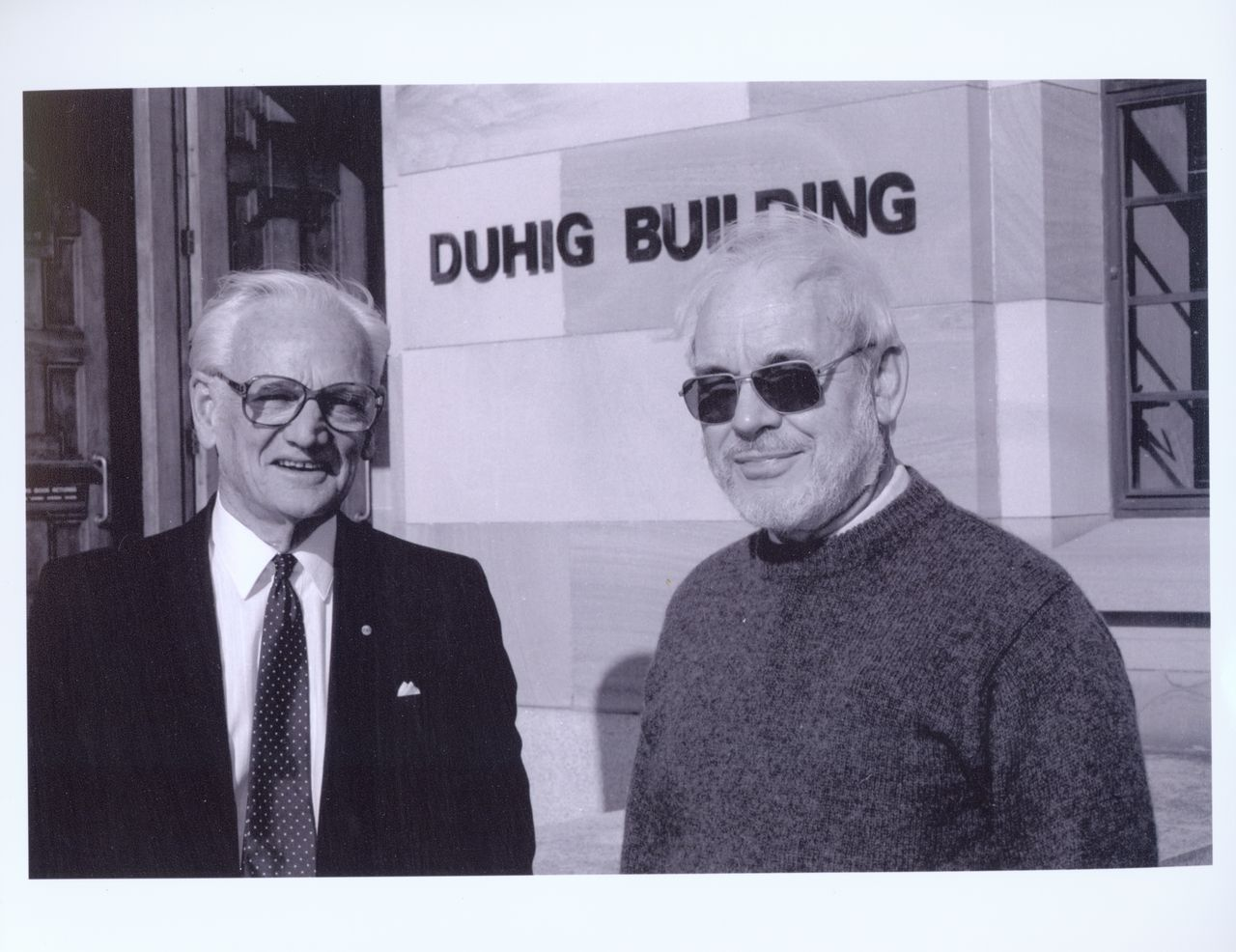 Former University Librarian Harrison Bryan with University Librarian Derek Fielding outside the Duhig Building at the University of Queensland, Brisbane, 20 Jul 1992